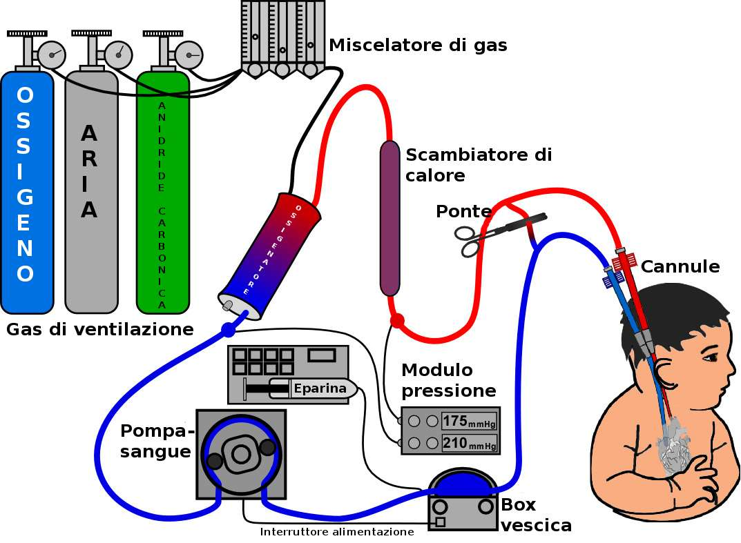 Ecmo schema, to provide extracorporeal oxygenation